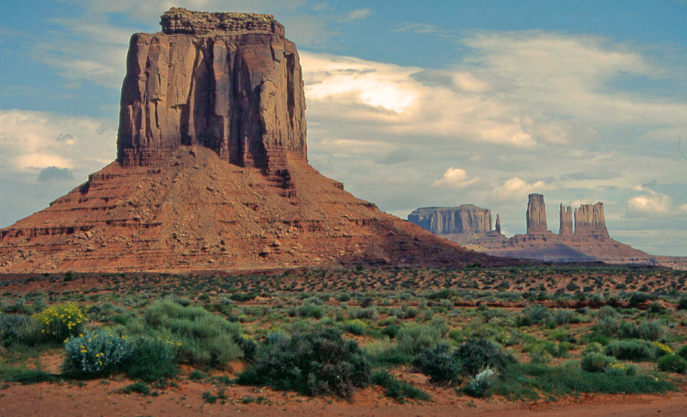 Monument Valley is a Navajo Indian Reservation in an area bordering the states of Arizona (NO) and Utha (SO). The region is known for its up to 600 meters high monolithic sandstone formations.